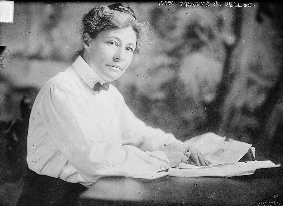 Frances Alice Kellor was an American sociologist. She was born October 20, 1873 in Columbus, Ohio. Died 1952.